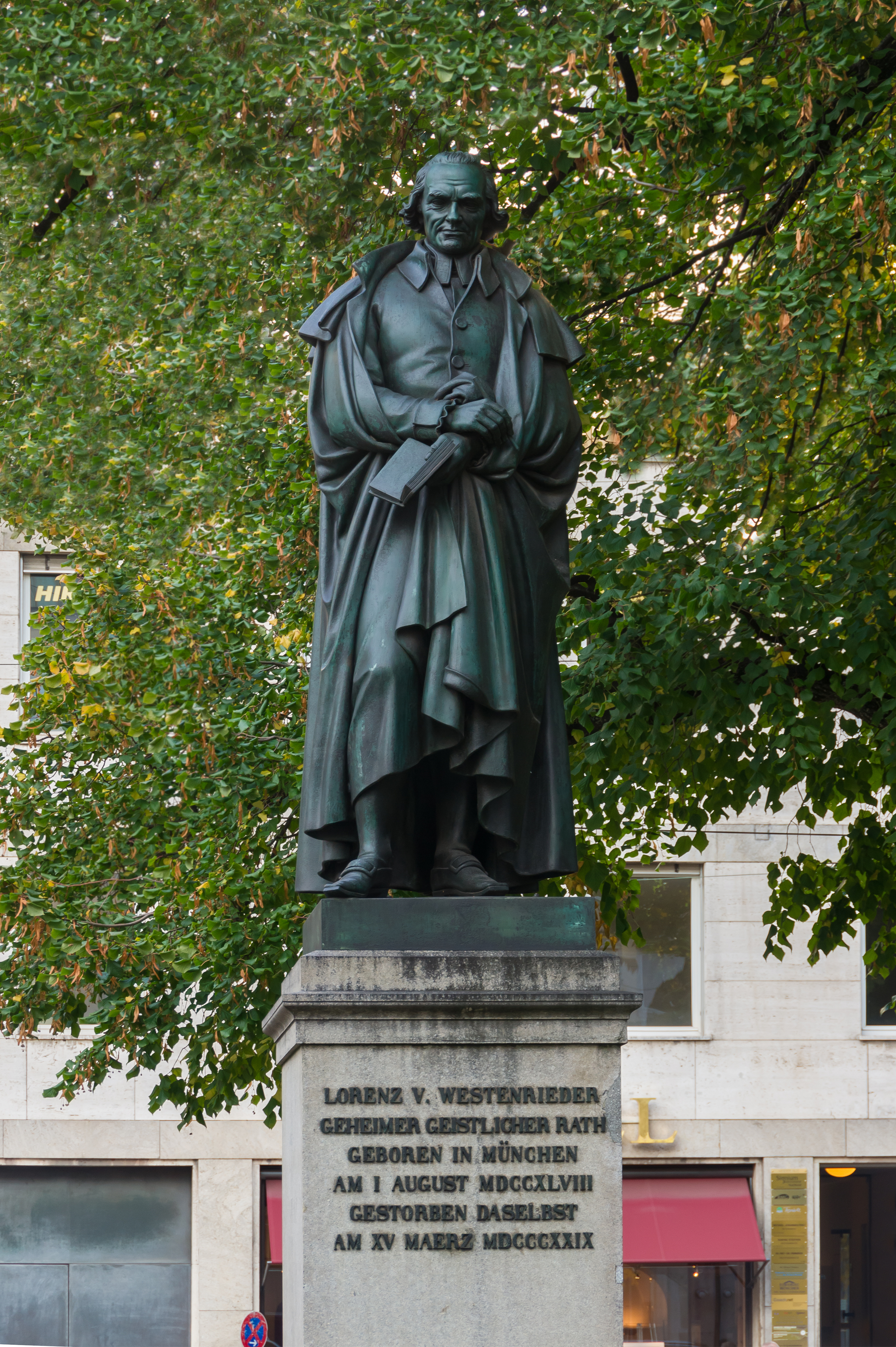 Statue to Lorenz von Westenrieder, Promenadeplatz, Munich, Bavaria, Germany.